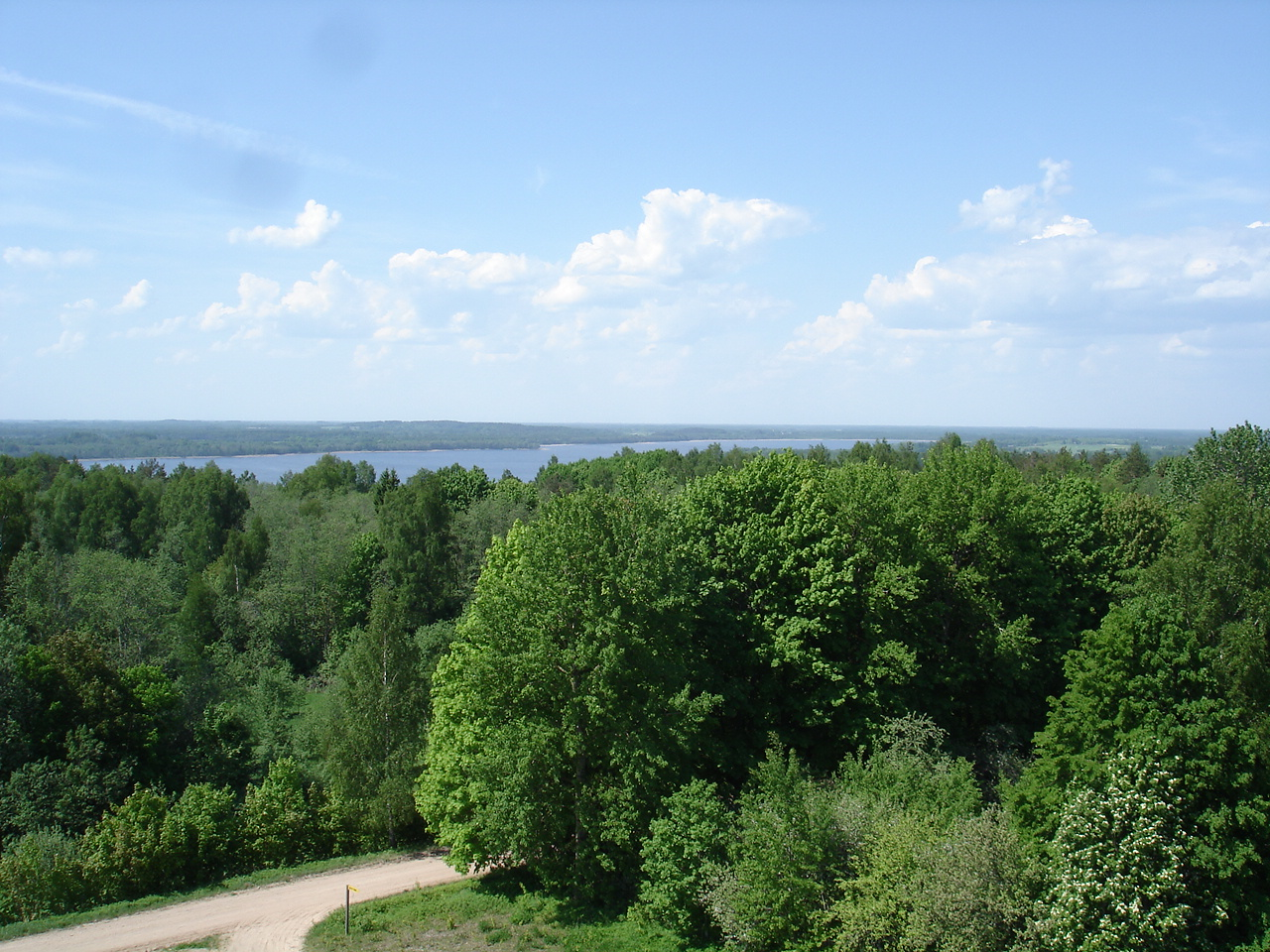 panorama